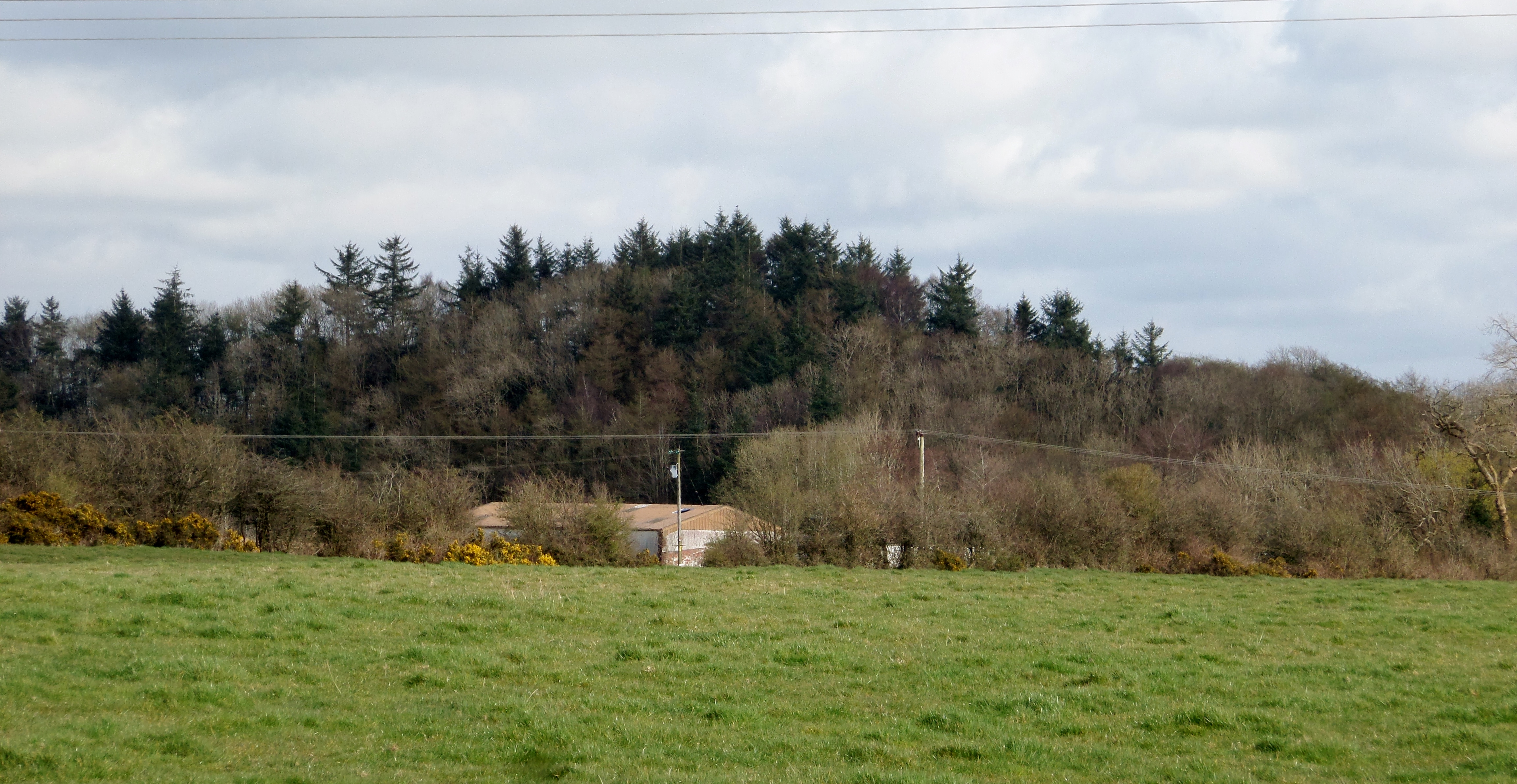 Bailliehill Mount Iron Age Fort, Kilmaurs, Ayrshire, Scotland. Also known as Bullyhill or Woodhill Mount this site overlooks the Carmel Water. Bronse Age burial mounds once stood nearby.